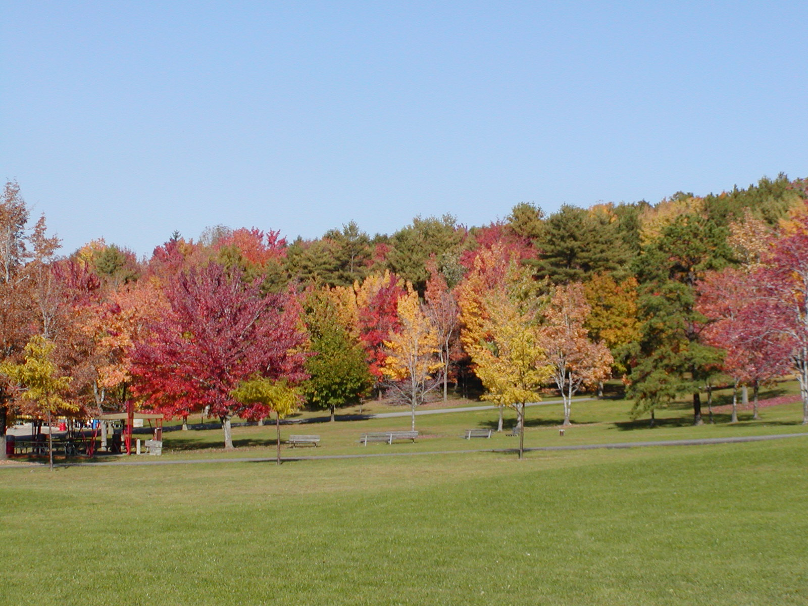 Fall foliage taken at Arnold Park in Vestal, NY. Shows purple, red, and yellow leaves found on trees near the East Coast in the Autumn.